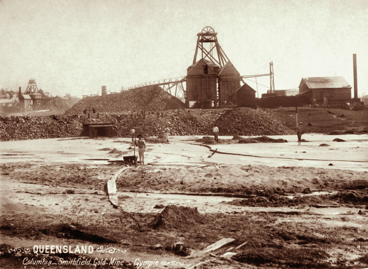 Columbia - Smithfield Gold Mine, Gympie.